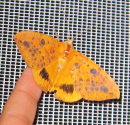 Heliophisma klugii moth (Boisduval 1833), syn. Achaea klugii Picture taken in Réunion. Noctuidae catocalinae from Madagascar and Réunion